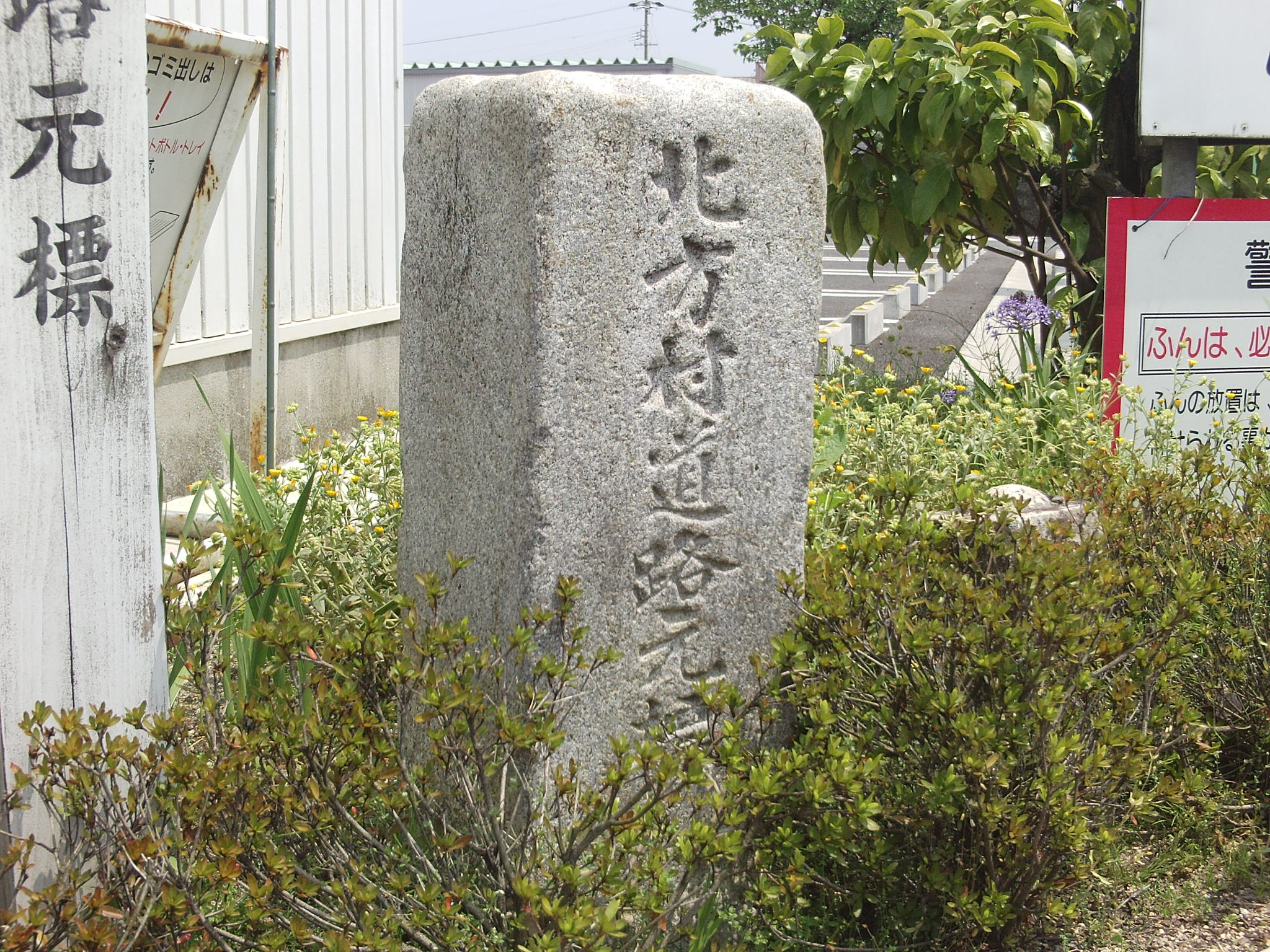 Kilometre zero of Kitagata village. (Kitagata village, Haguri-gun, Aichi.)